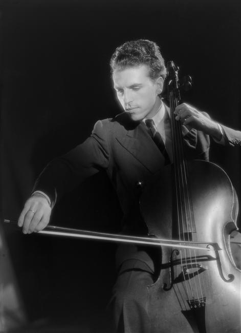 Studio photo